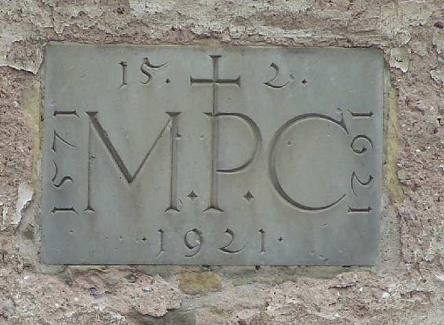 The memorial plate at the ST.Nicolai church in Creuzburg, remembering Michael Praetorius Cruciburgensis = M.P.C. = (*1571 - †1621).